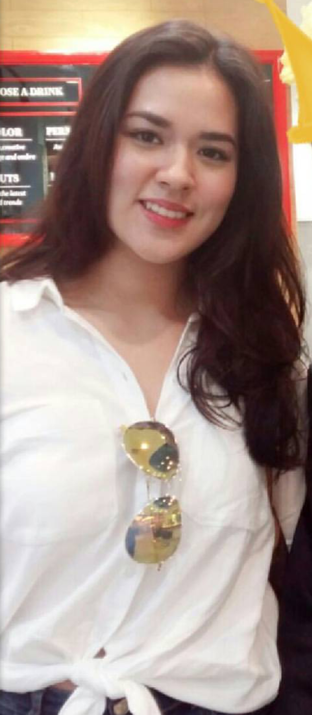 Raisa Andriana, Indonesian popular singer